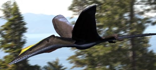 Cuspicephalus individual